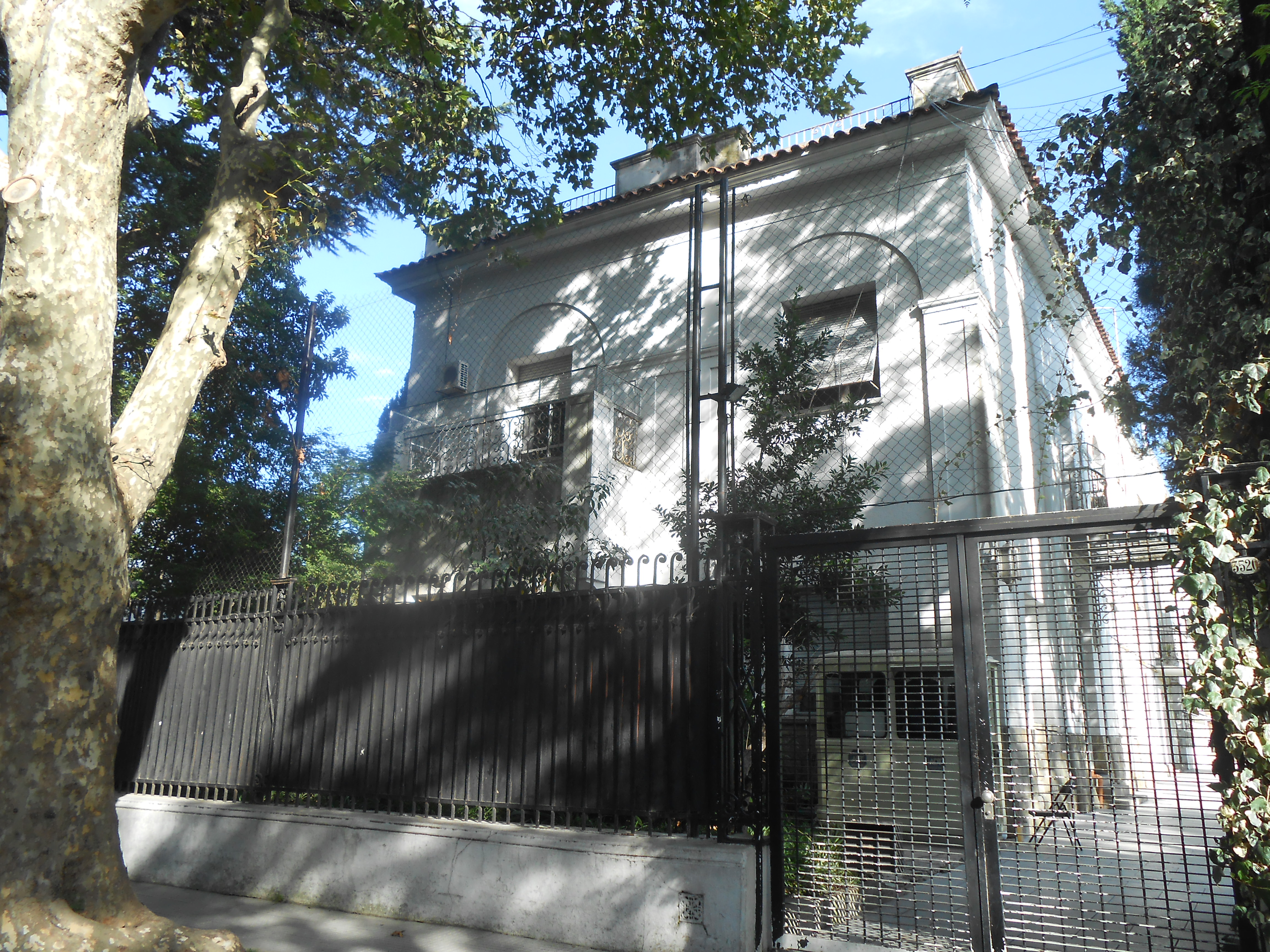 View of the building of the Colegio Japonés en Buenos Aires (Japanese School of Buenos Aires)/Asociación Cultural y Educativa Japonesa (Japanese Culural and Educational Association)